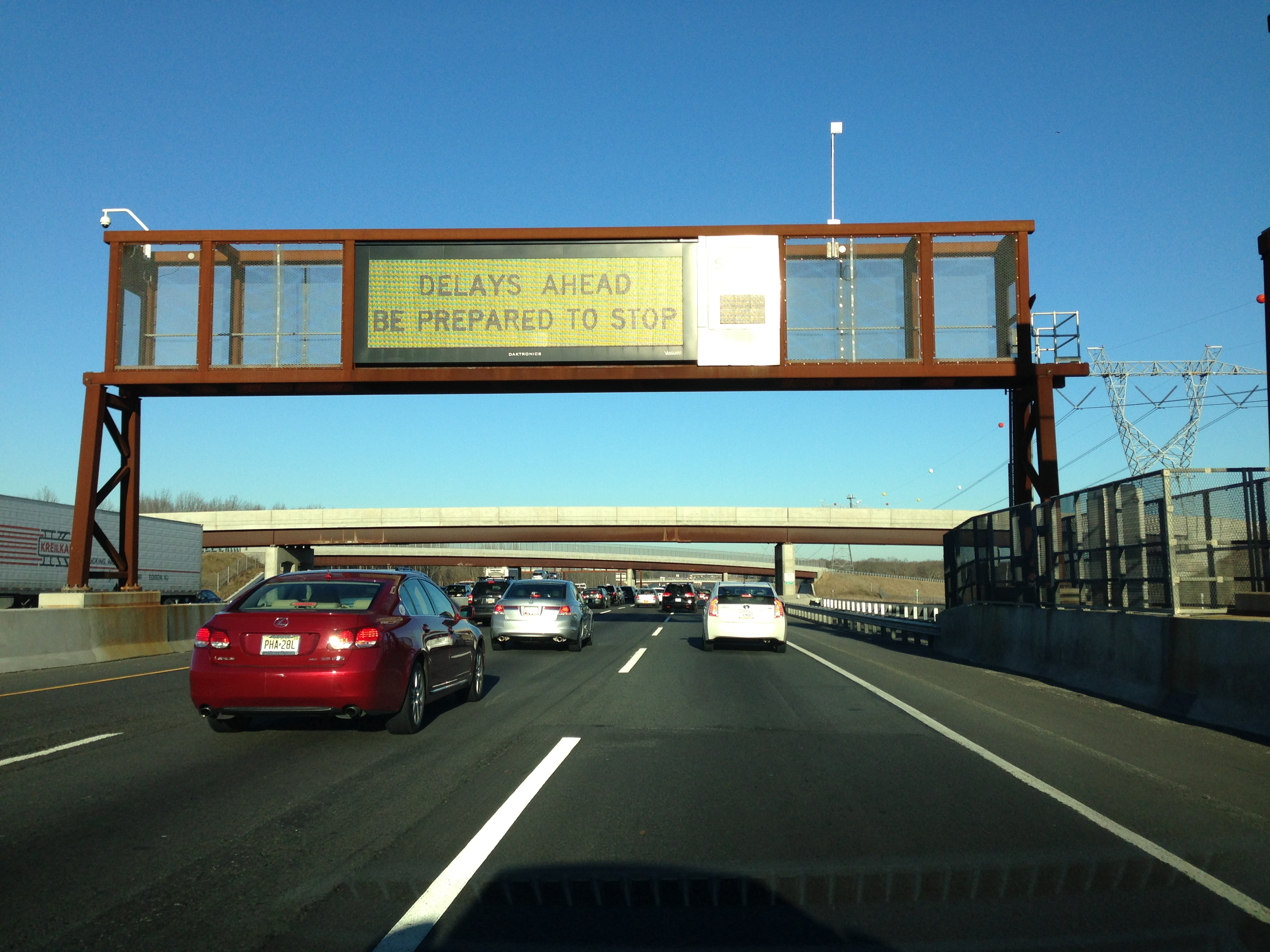 New variable message sign on northbound Interstate 95 (New Jersey Turnpike) just north of Exit 7A (Interstate 195, Trenton, Shore Points) in Robbinsville Township, Mercer County, New Jersey